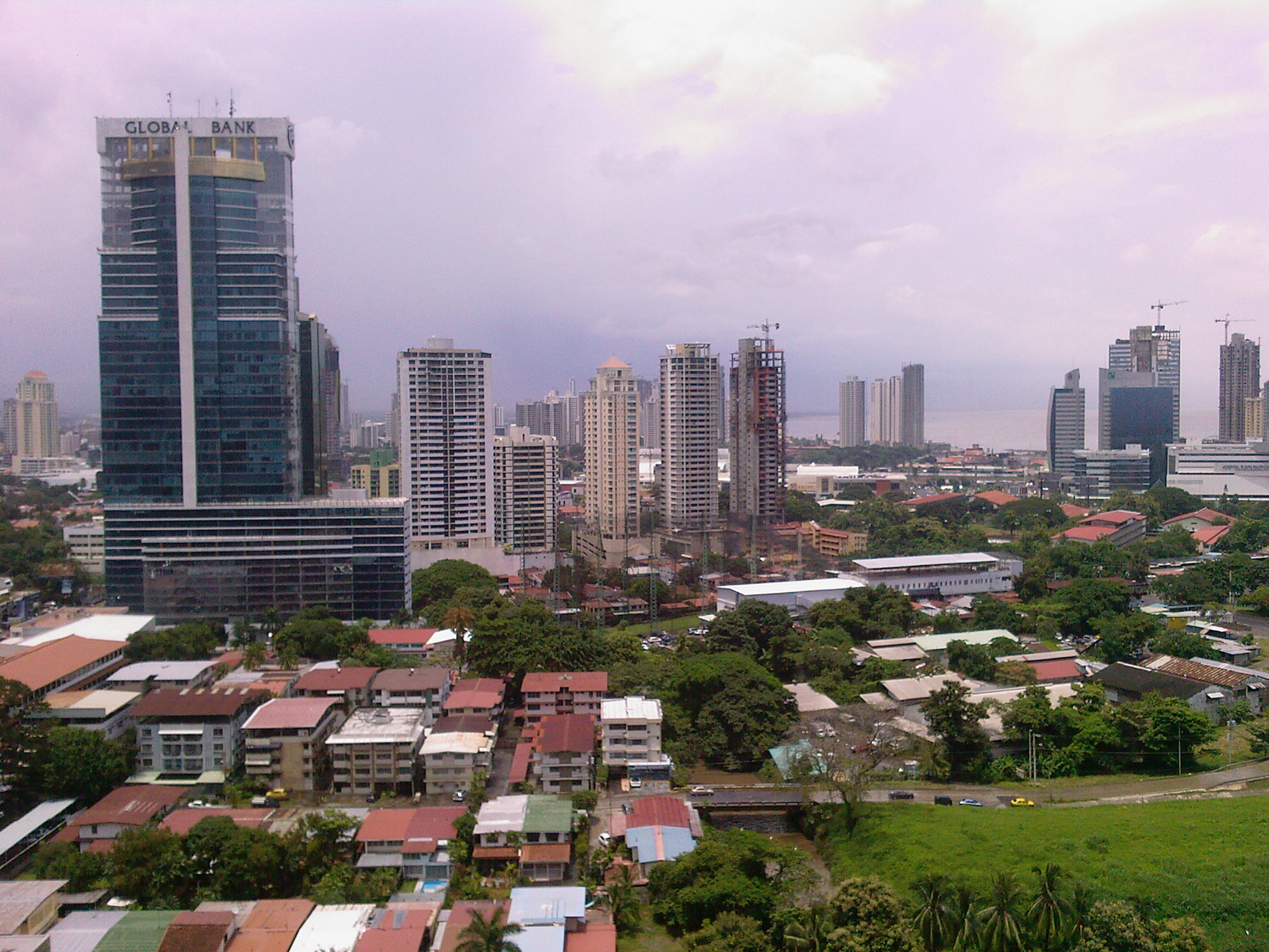 Imagen tomada desde la azotea de un edificio para mostrar la ciudad de Panamá. - Picture taken from the top of a building to show Panama City.